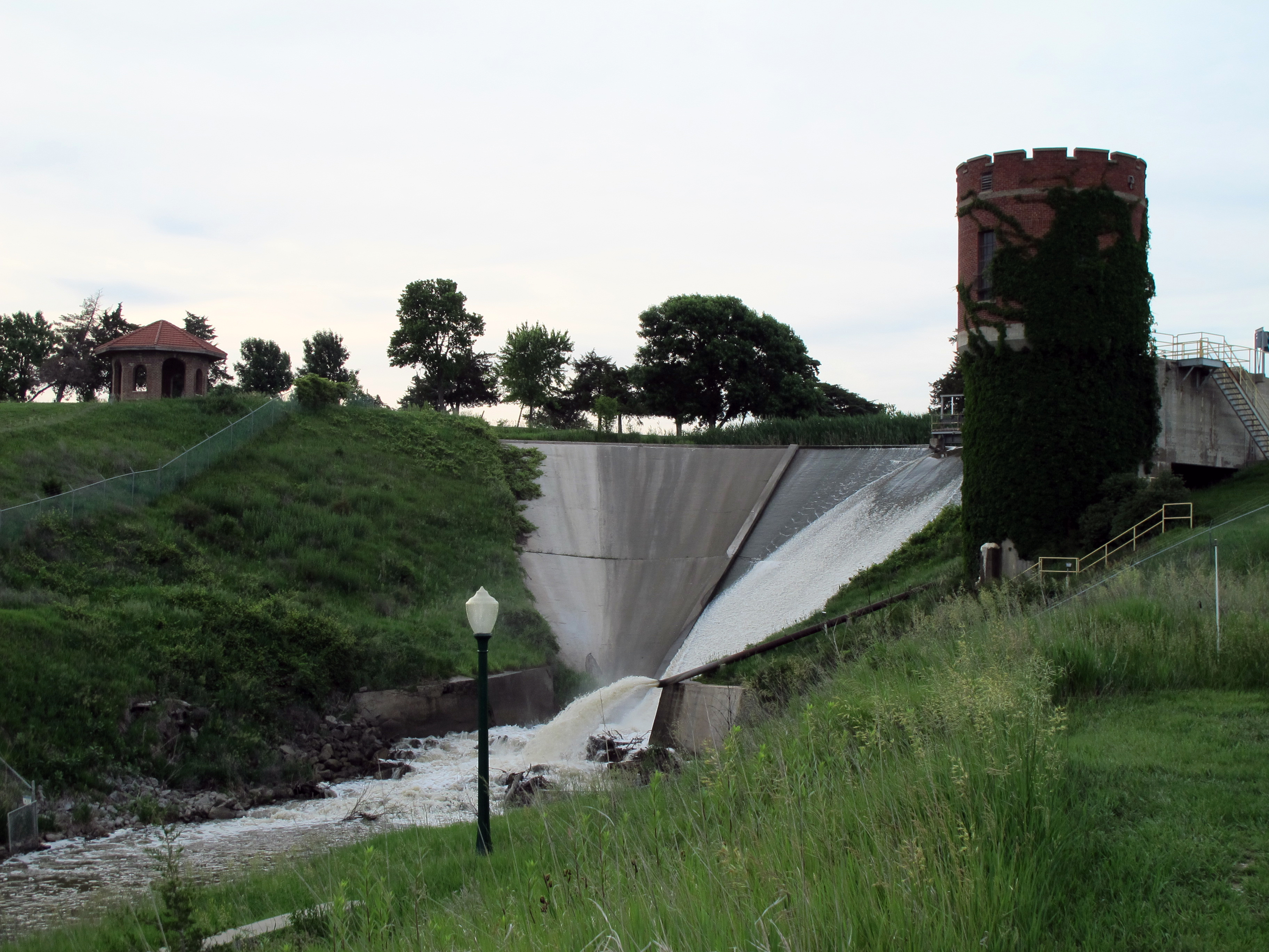 Photo of Kearney Dam (and the Kearney Canal), near the University of Nebraska-Kearney campus in Kearney, Nebraska. Photo is looking north-northwest at the face of the dam (south-facing dam; nearly due north of 15th Avenue & University Drive).